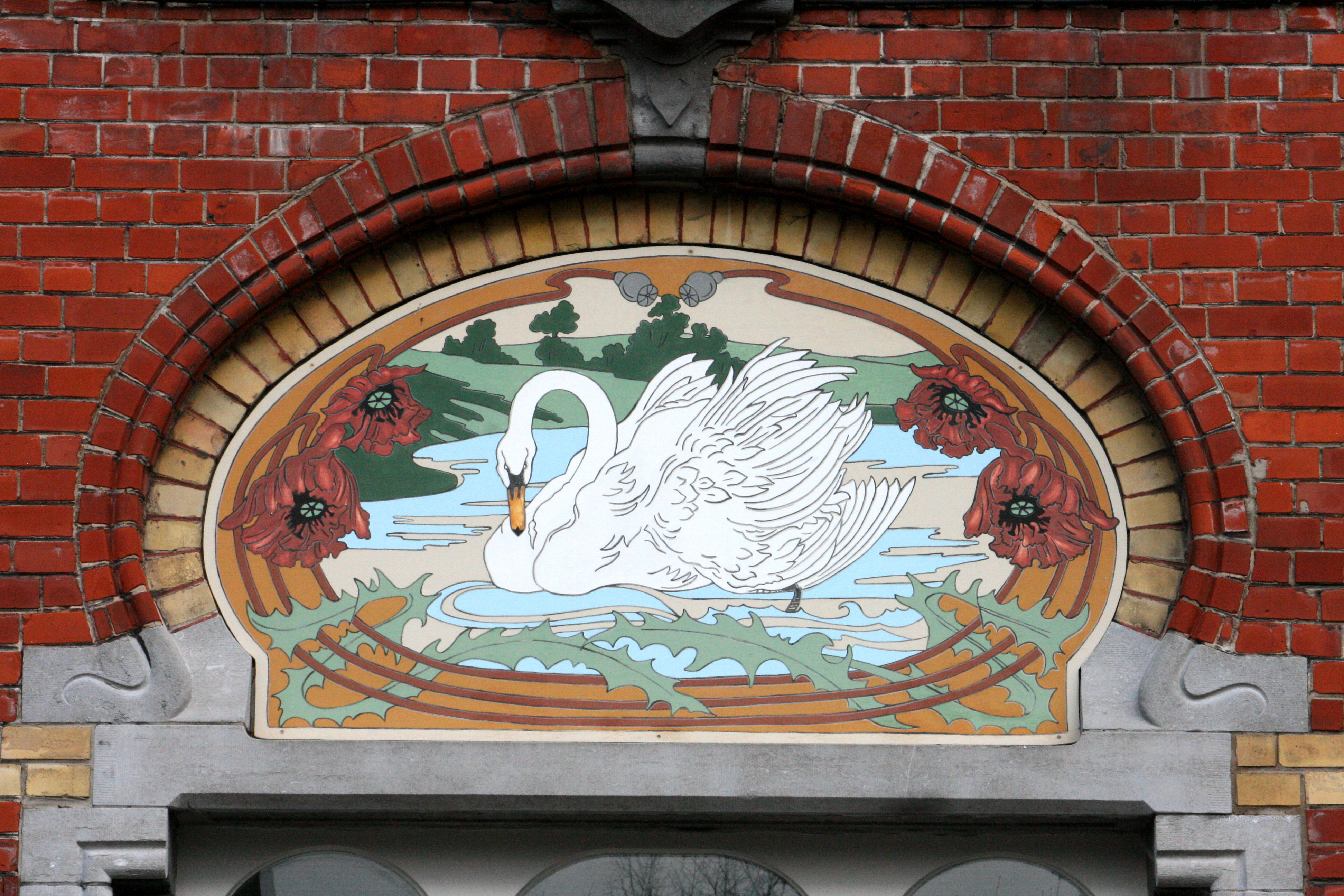 Avenue Van Cutsem 19, Tournai, Belgium. Sgraffito